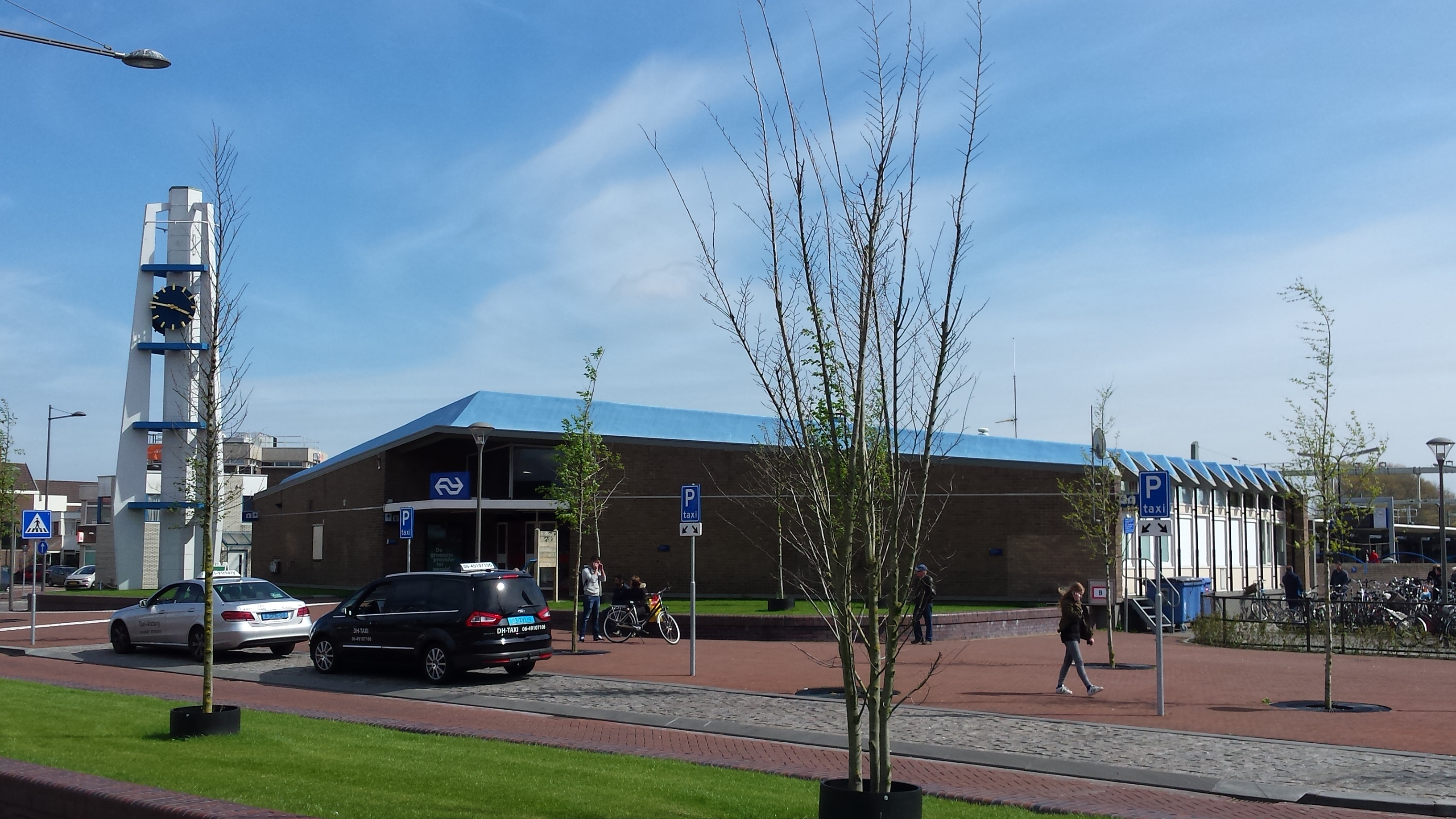 Den Helder Station